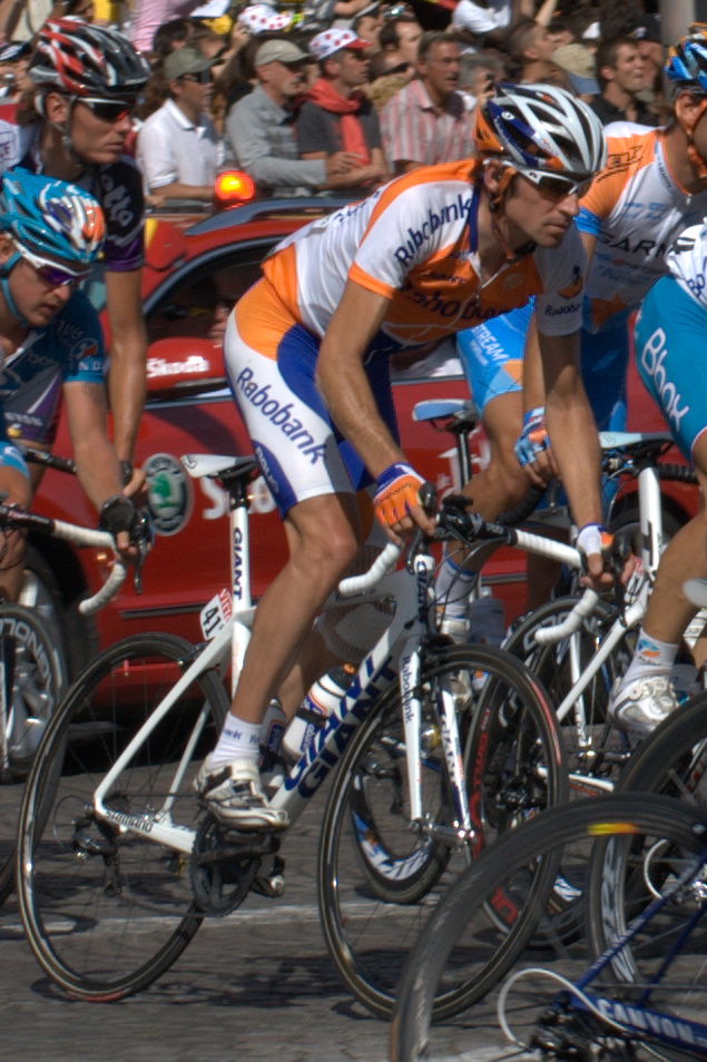 Denis Mensjov in Paris